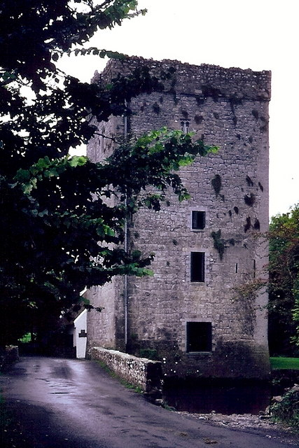 Thoor Ballylee - Home of W B Yeats This is a 16th century Norman castle that consisted of 4 floors (one room with a window on each floor overlooking a river that flowed alongside the castle). The floors & rooms were connected by a spiral staircase built into the 7ft thickness of the massive outer wall. The roof was flat and was accessed by a steep flight of stairs from the floor below. W B Yeats purchased and restored this tower castle and his wife & daughter moved in the summer of 1919. The castle fell into disuse after the Yeats family moved out in 1929. In 1965, it was restored as "Yeats Tower" and utilized as a museum.